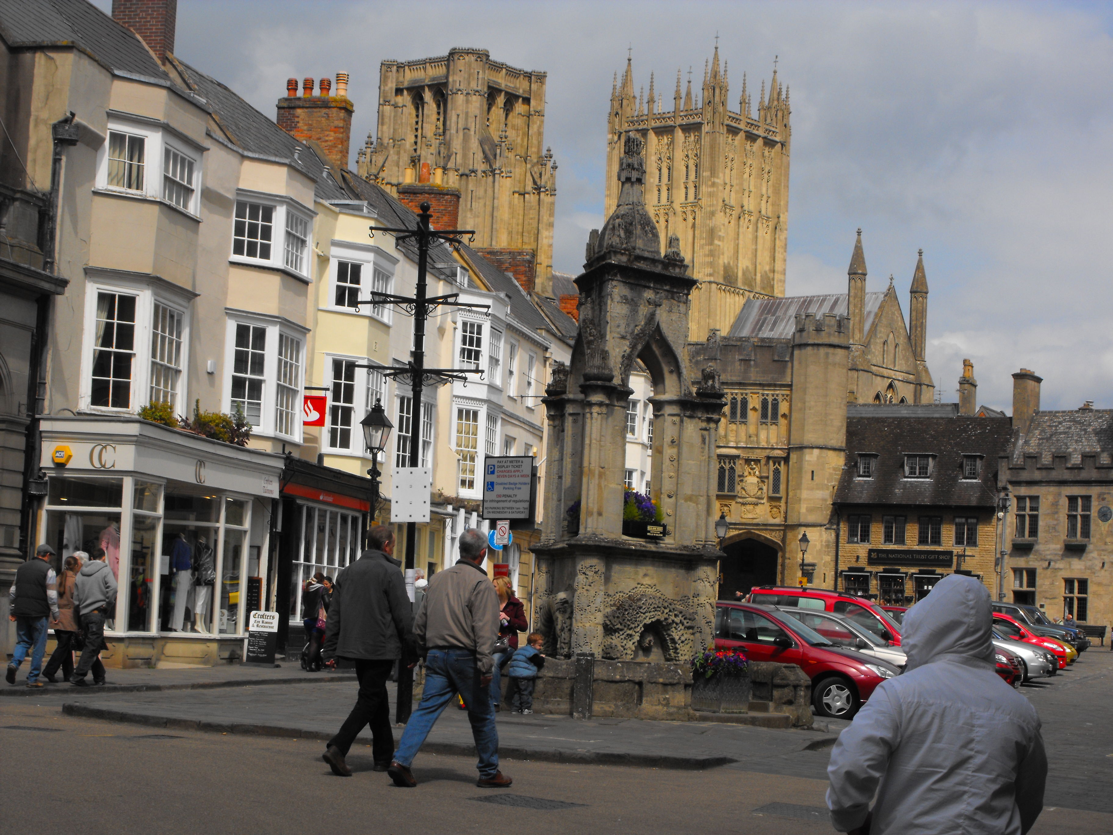 Centre of Wells and cathedral